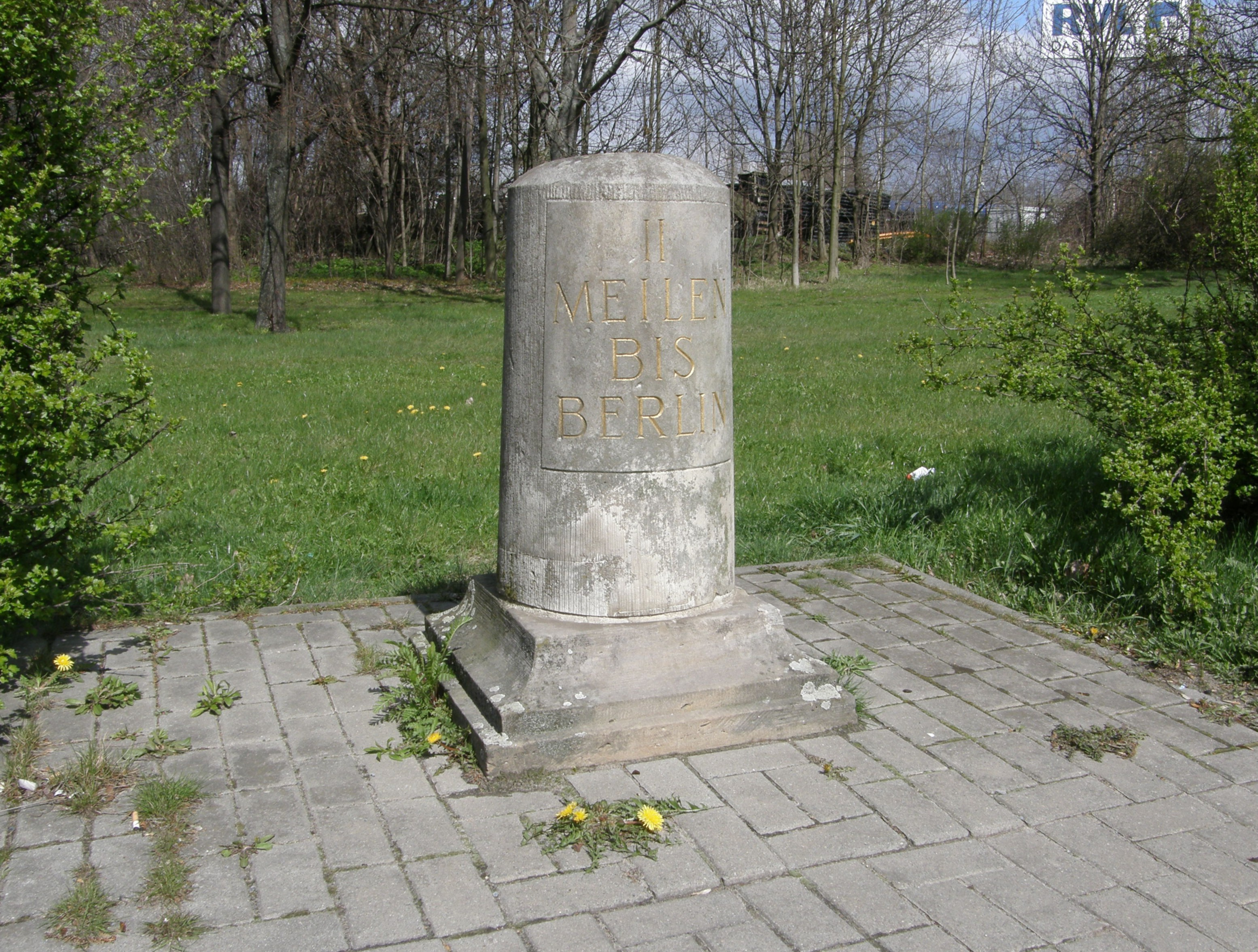 Inscription: II Meilen bis Berlin, i.e. 2 Prussian miles to Berlin (equalling 9.361 statute miles).